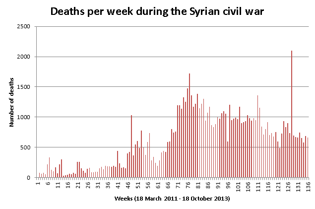 Total deaths over time as a result of the Syrian civil war, based on data from the Syrian National Council. [1]